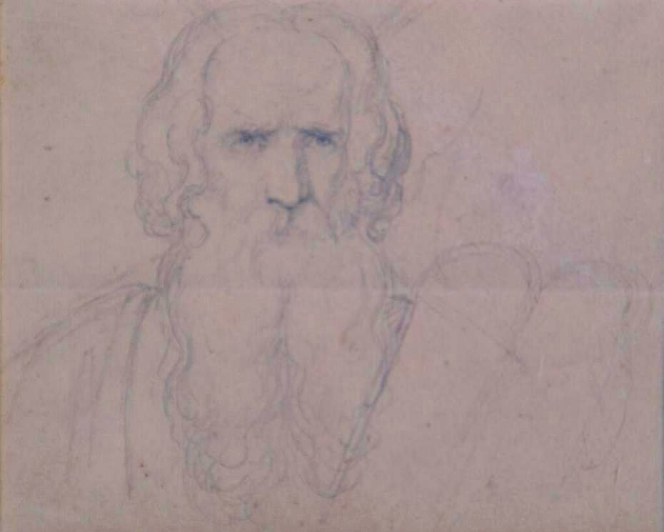 Moses with the Ten Commandments by Carl Gottlieb Peschel pencildrawing on paper Ere 1850 Carl Gottlieb Peschel focused his artistic efforts mainly on subjects of the Old Testament. Then he turned towards the New Testament.